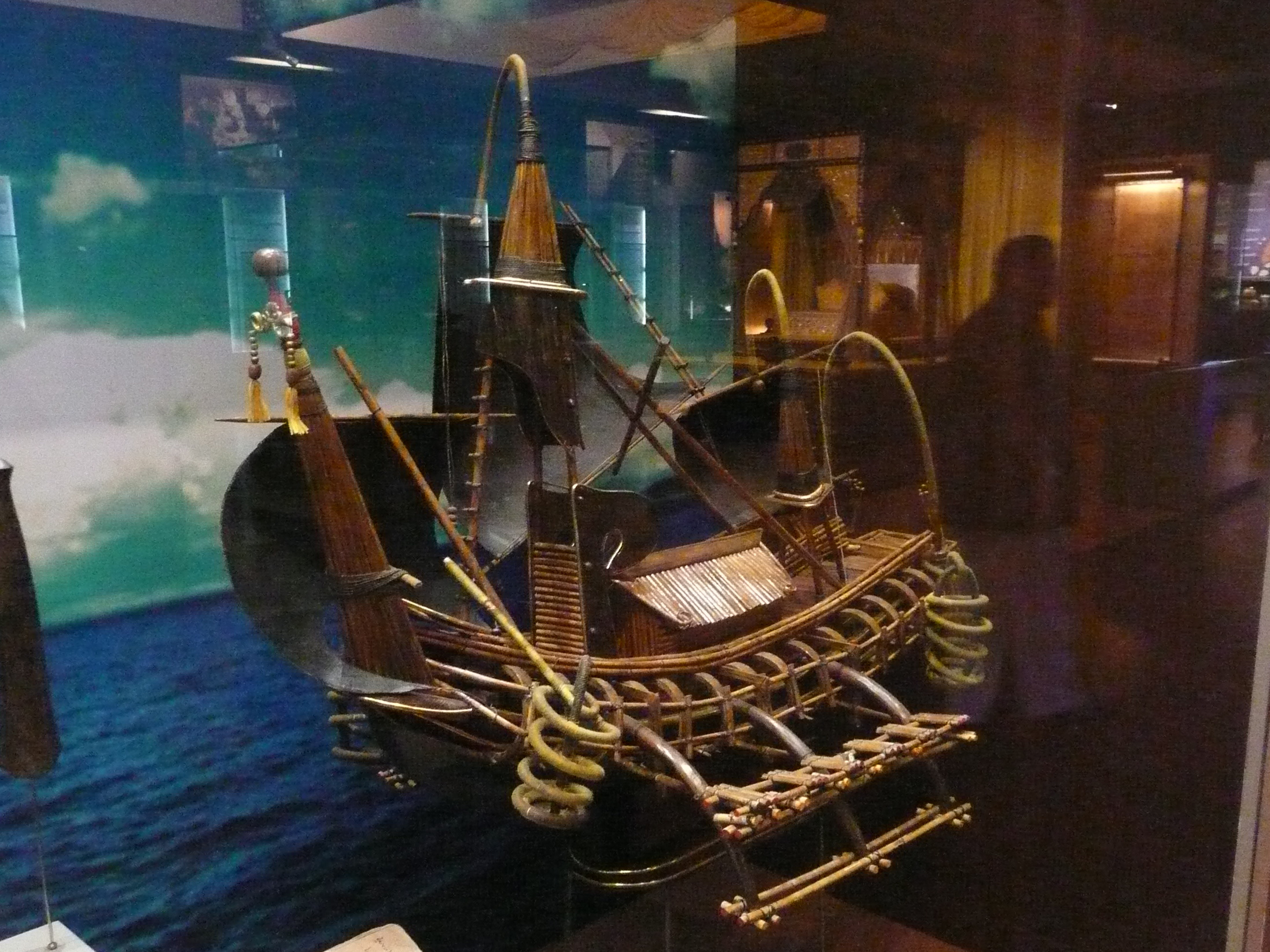 Model of Majapahit ship. This model represents a characteristic Majapahit ship, a bahtera, a product of the kingdom's expert craftsmanship which travelled the seas to trade and to acquire new territories.